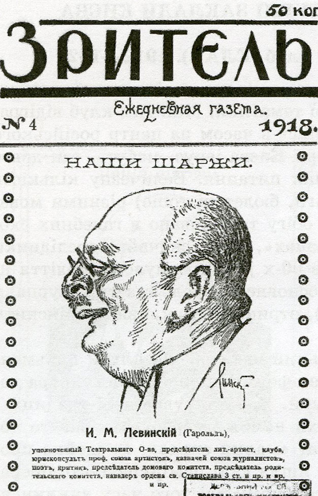 I. M. Levinsky (Garold), russian journalist and poet. Caricature portrait by M. Linsky